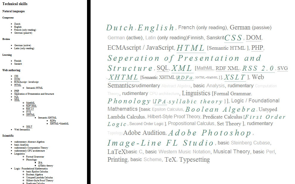 An illustration of separation of structure and presentation, left is stylesheets disabled in Firefox 3.5.7, right is enabled.